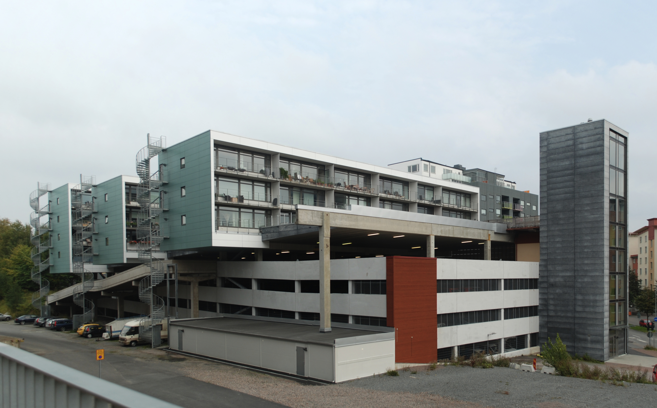 Studio 57. New residential buildings on top of an older car park in Eriksberg, Gothenburg. Arcitects Semrén & Månsson Arkitektkontor AB. Built by Aspelin-Ramm Fastigheter AB 2008.